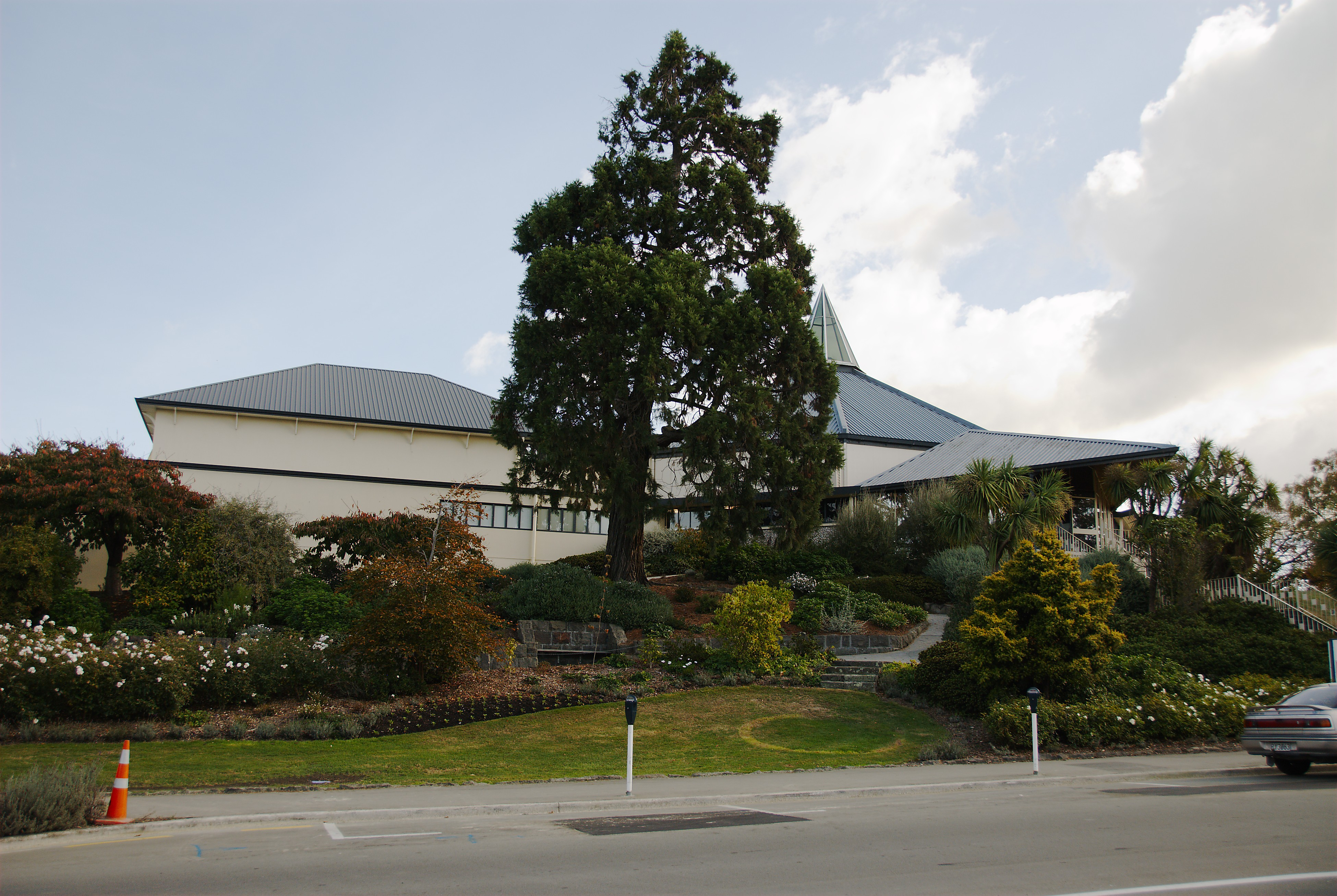 Exterior view of the South Canterbury Museum in Timaru, New Zealand